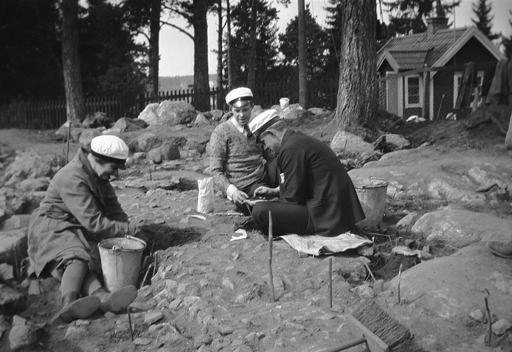 Berit Wallenberg and archaeologists Söderberg and Althin at an excavation in Nälsta